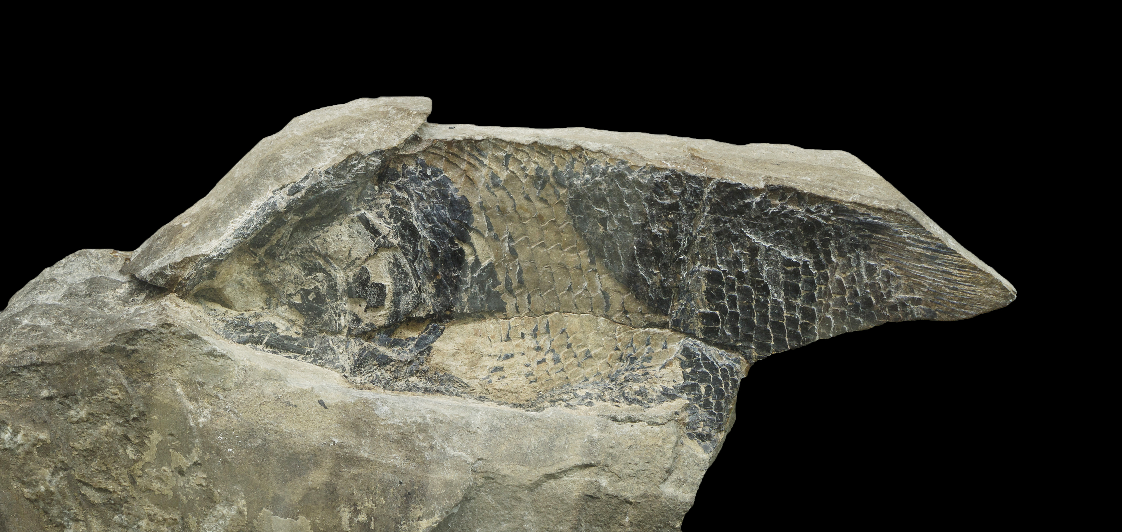 Archaeolepidotus leonardii Accordi 1956, Holotype; Bellerophon Formation, Upper Permian, Urtijëi; Museum de Gherdëina, Urtijëi, South Tyrol, Italy.